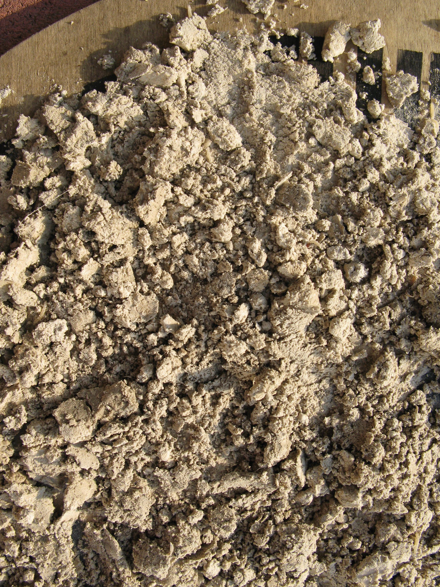 Photo by E. v. Muench on 6 July 2010